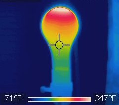 Thermal image of an incandescent light. The lamp is a 100 watt, uncoated bulb, and the light was on during the photographing.